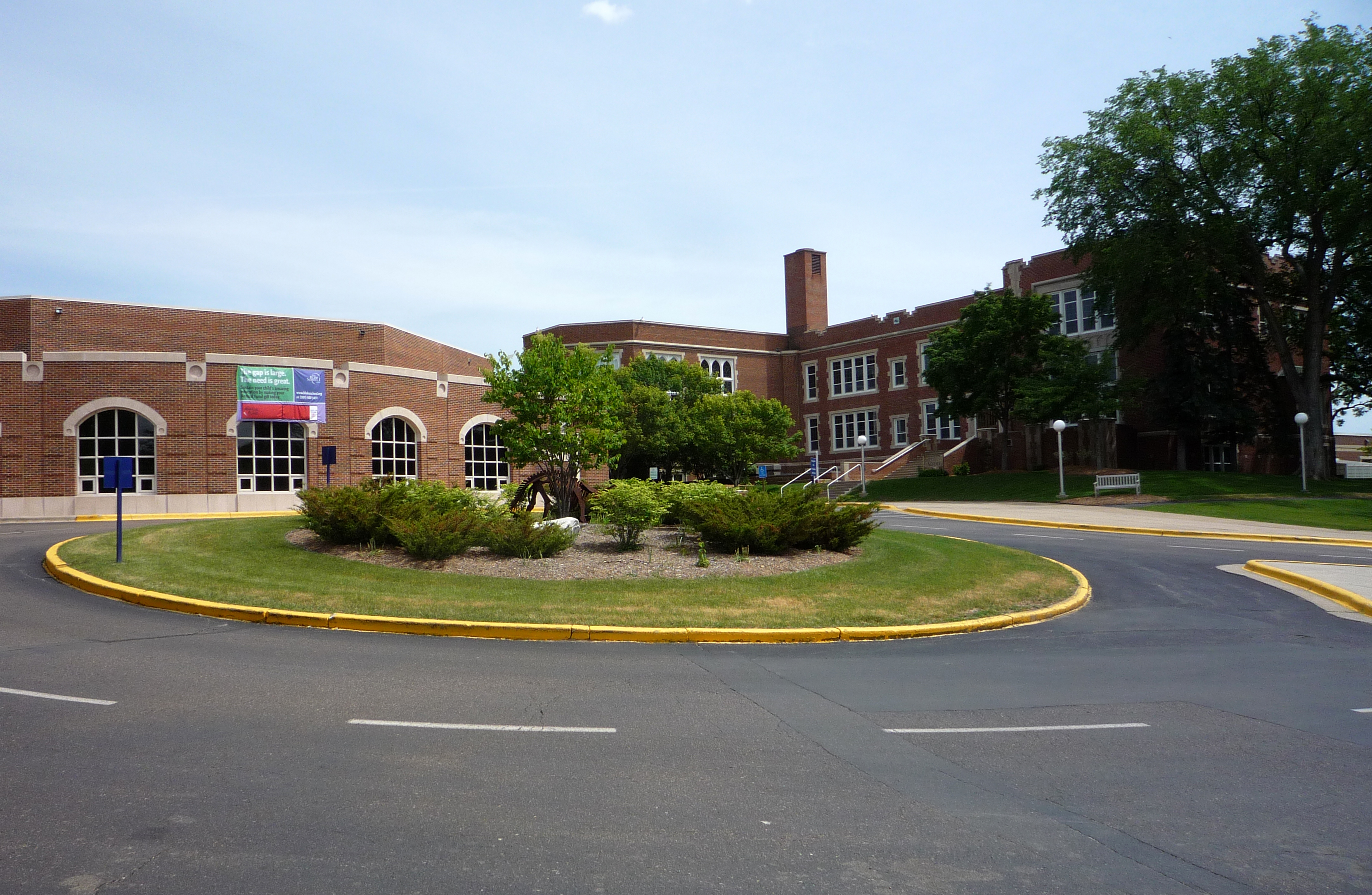 TheBlake School's Lower and Middle School, Blake Campus, Hopkins, Minnesota, USA.